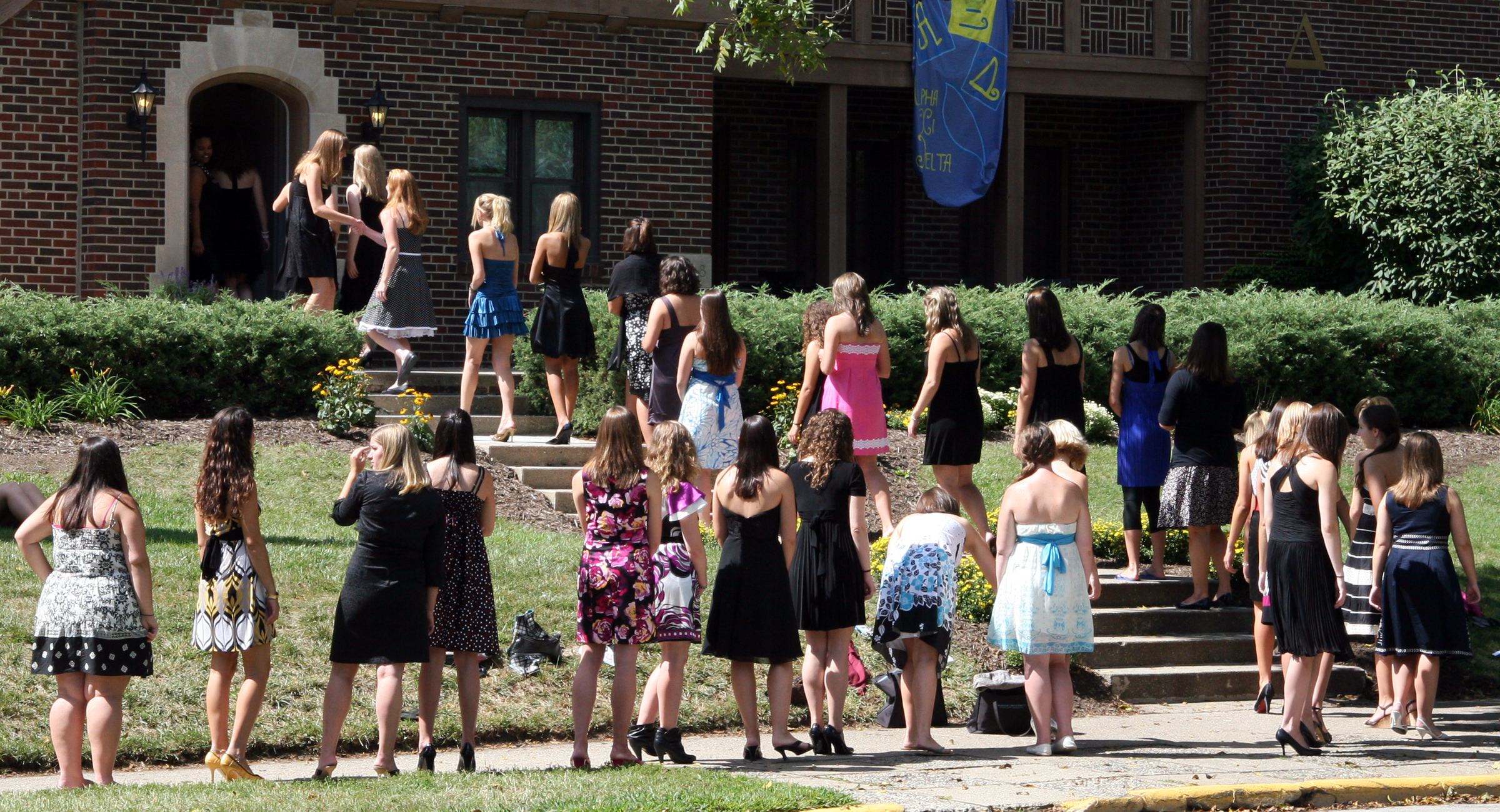 Purdue University students line up to rush the Alpha Eta (ΑΗ) chapter of the Alpha Xi Delta (ΑΞΔ) sorority during Purdue's Panhellenic Association Sorority Formal Recruitment. Photo looks northwest from University Street.